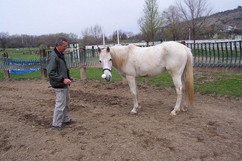 First steps of horse clicker training: targeting.